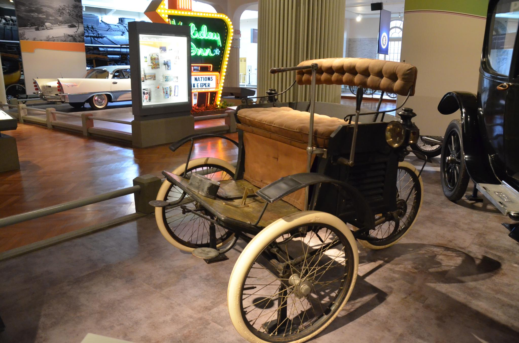 For about 6 weeks in January and February, the Henry Ford museum in Dearborn, Michigan opens the hoods on about 50 of it's iconic vehicles. Here is a photo of one of the vehicles on display.